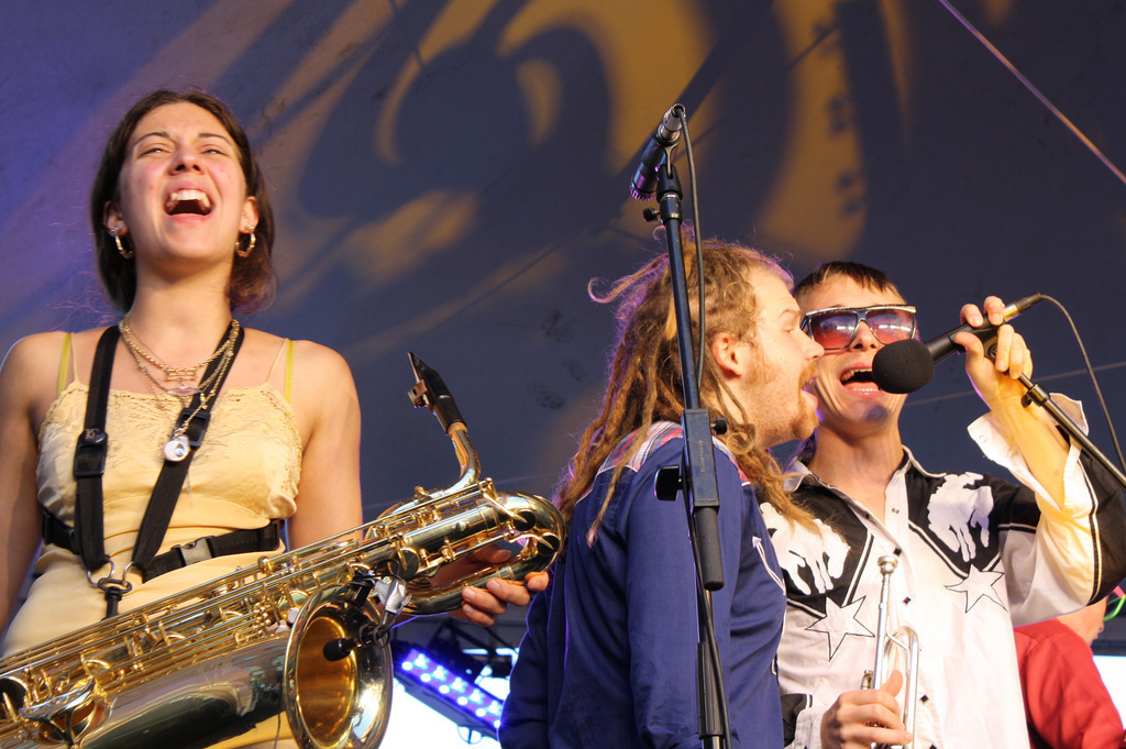 Rubblebucket on the Marketplace